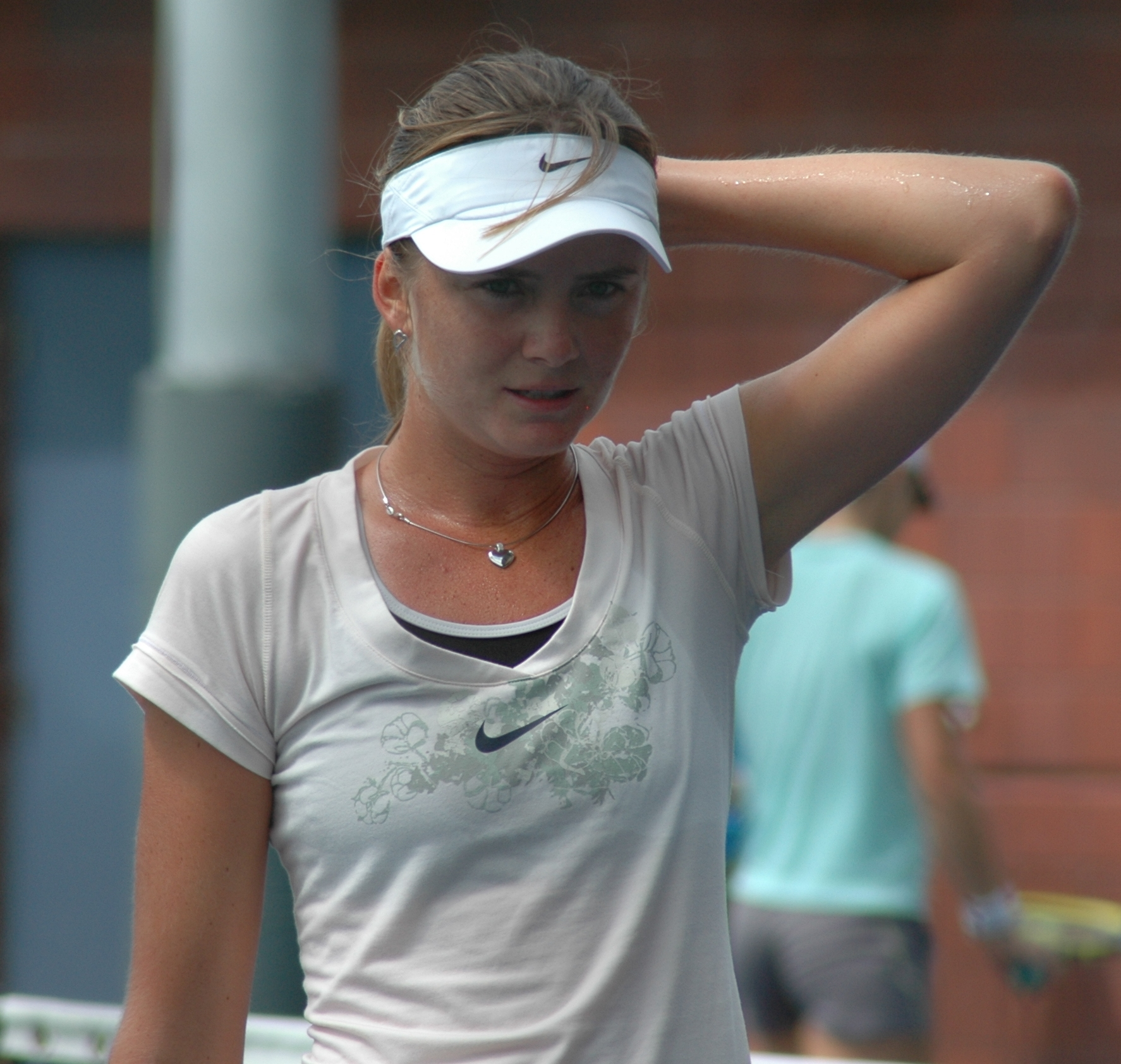 Daniela Hantuchová on the practice court at the 2008 US Open